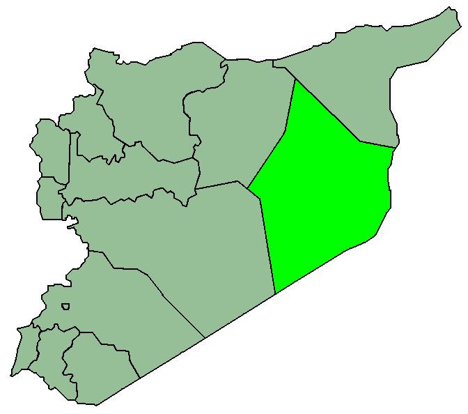 The Syrian governorate of Deir ez-Zour.